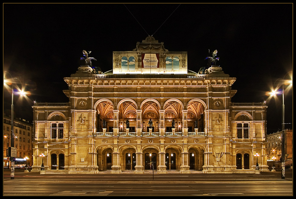 Austria, Vienna, Vienna State Opera